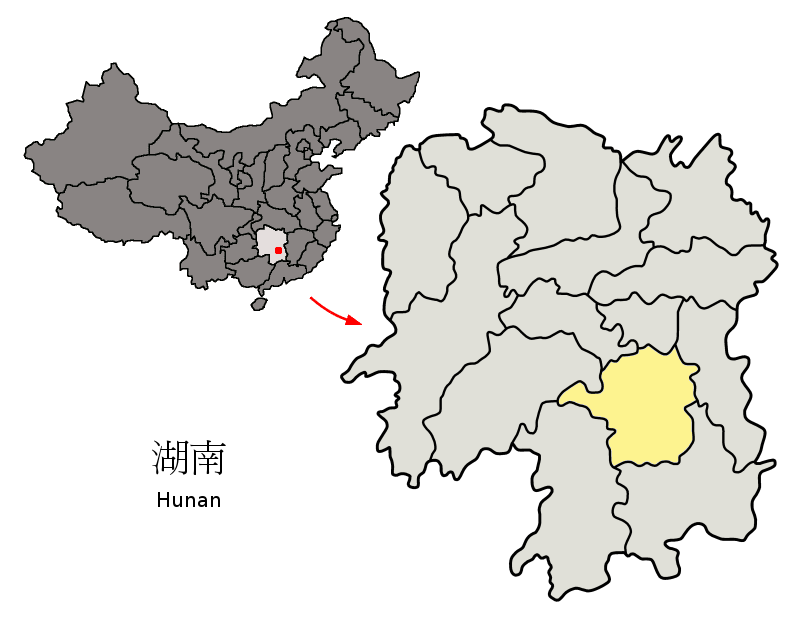 Location of Hengyang Prefecture (yellow) within Hunan Province of China Map drawn in december 2007 using various sources, mainly : Hunan Province administrative regions GIS data: 1:1M, County level, 1990 Hunan Counties map from